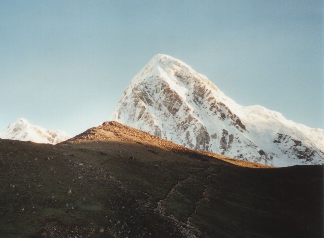 The peak in the background is Pumori (7,161 m)